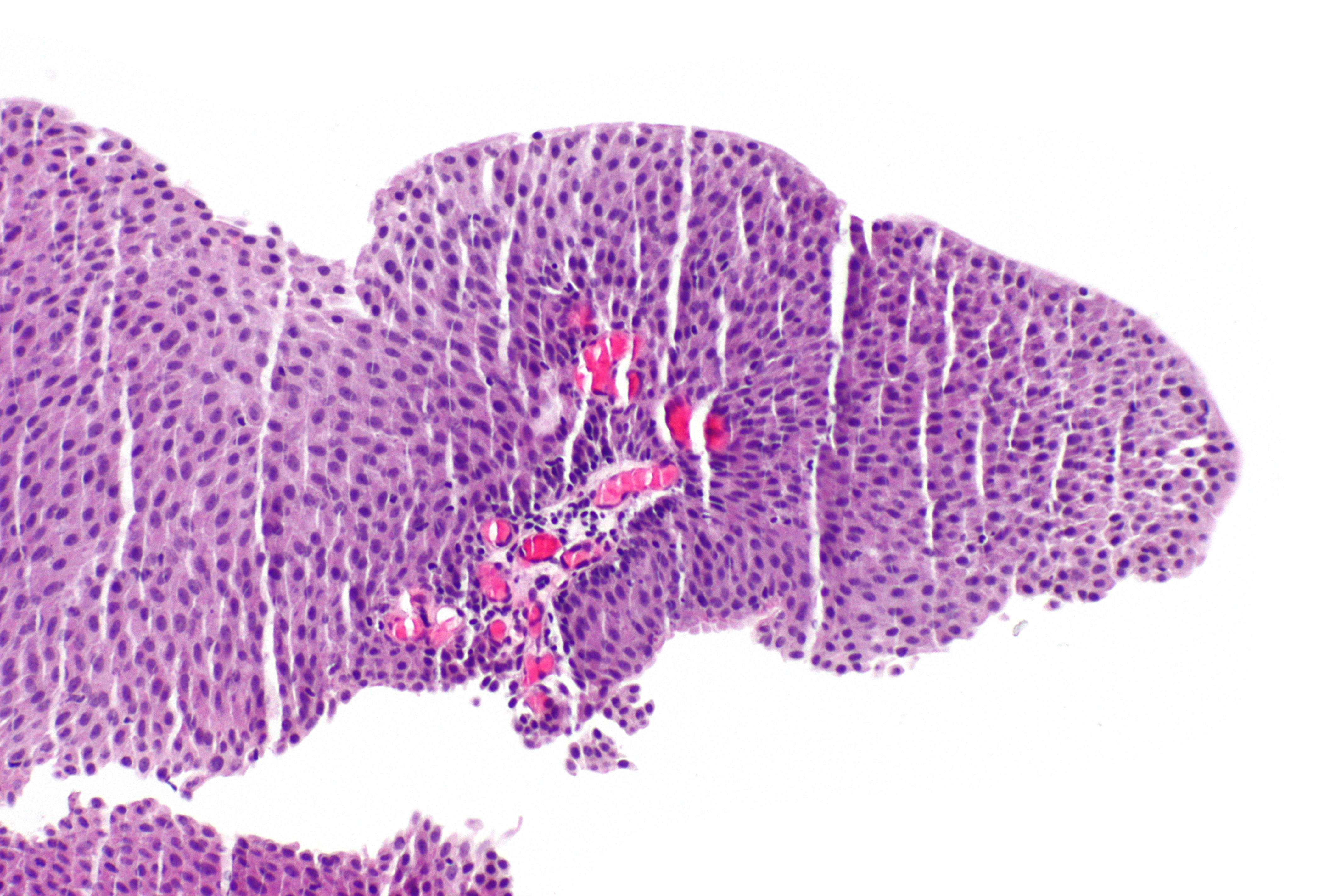 Micrograph of a low-grade papillary urothelial carcinoma. H&E stain. Related images LGPUC - intermed. mag. LGPUC - intermed. mag. LGPUC - intermed. mag.